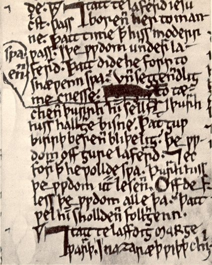 Page from the 13th century Ormulum. Note the careful redaction.